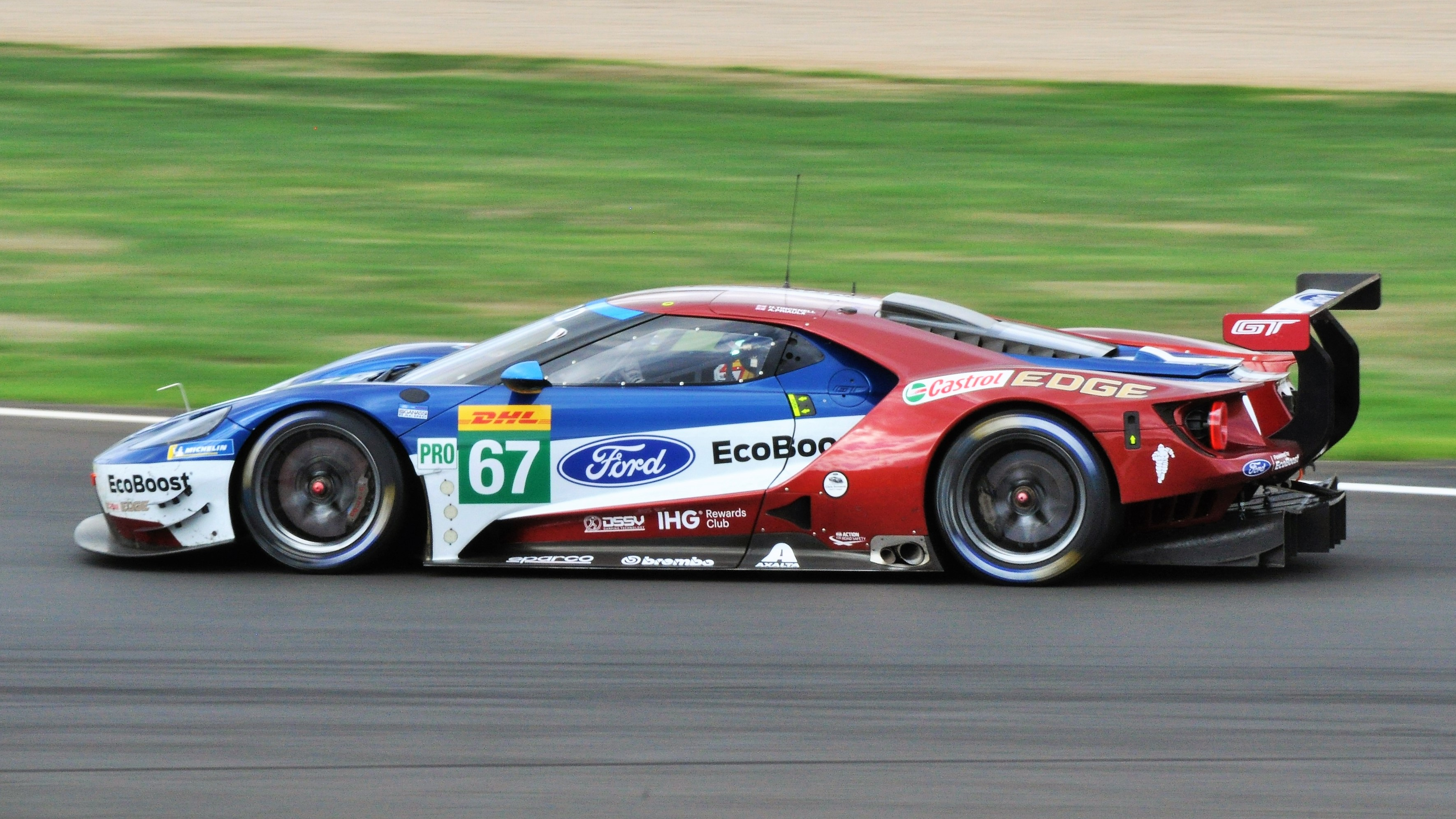 Gurnsey driver Andy Priaulx in the number 67 Chip Ganassi Team UK entry, at Club corner during the 2018 6 Hours of Silverstone race. Priaulx and his co-driver, British driver Harry Tincknell, finished second in the LMGTE Pro class.